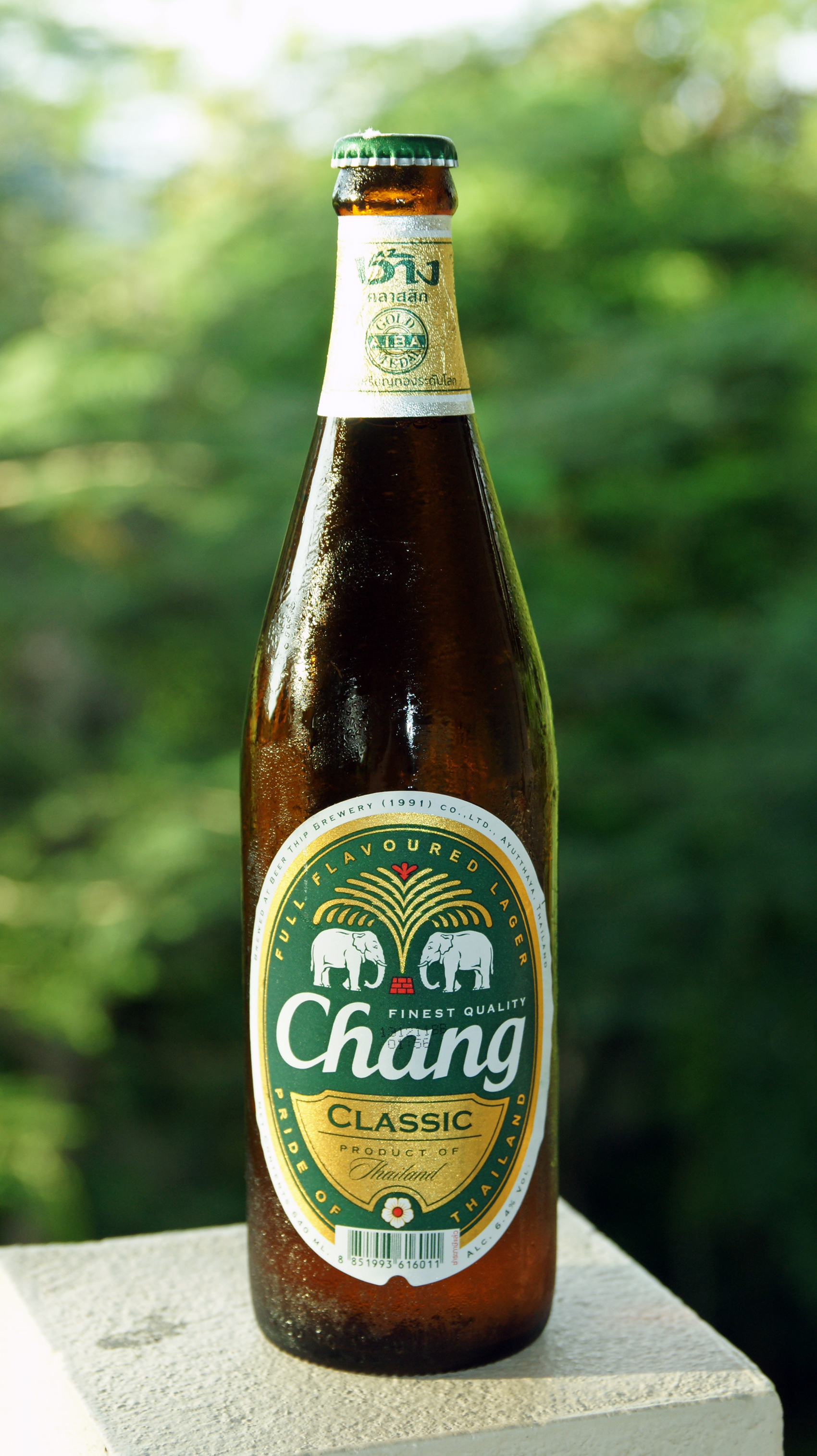 A bottle of Chang beer.